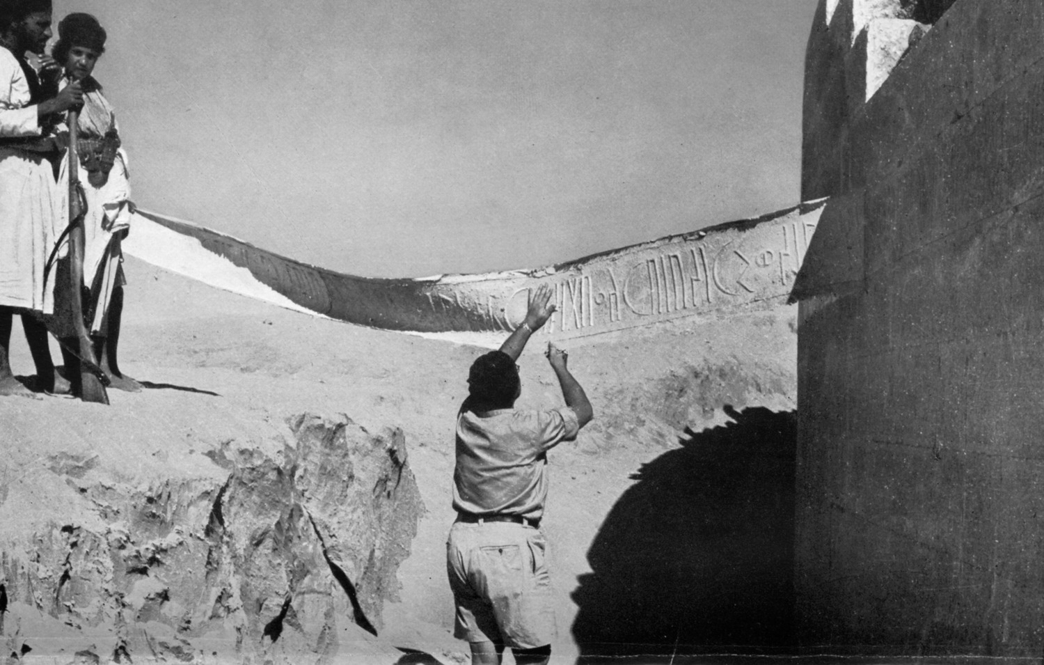 Copying an inscription from the exterior walls of the sanctuary